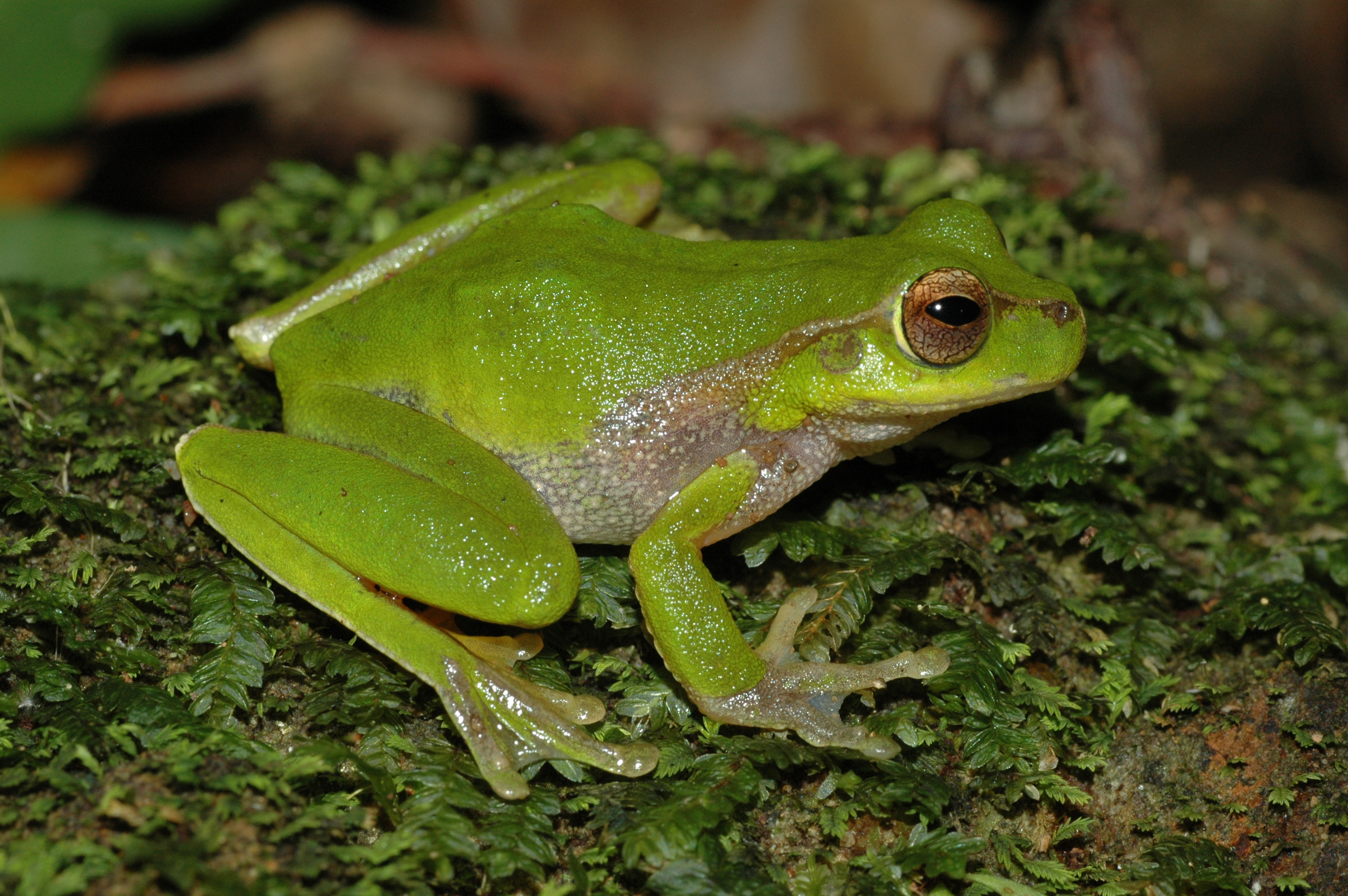 Litoria pearsoniana, Pearson's Tree Frog. This frog was found at in Springbrook National Park, QLD Australia.